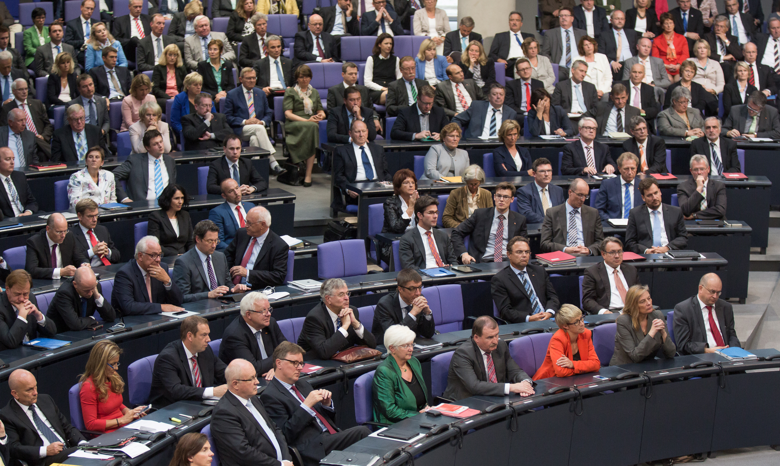 Picture taken during Wikipedia Bundestag project 2014. CDU/CSU-Bundestagsfraktion.